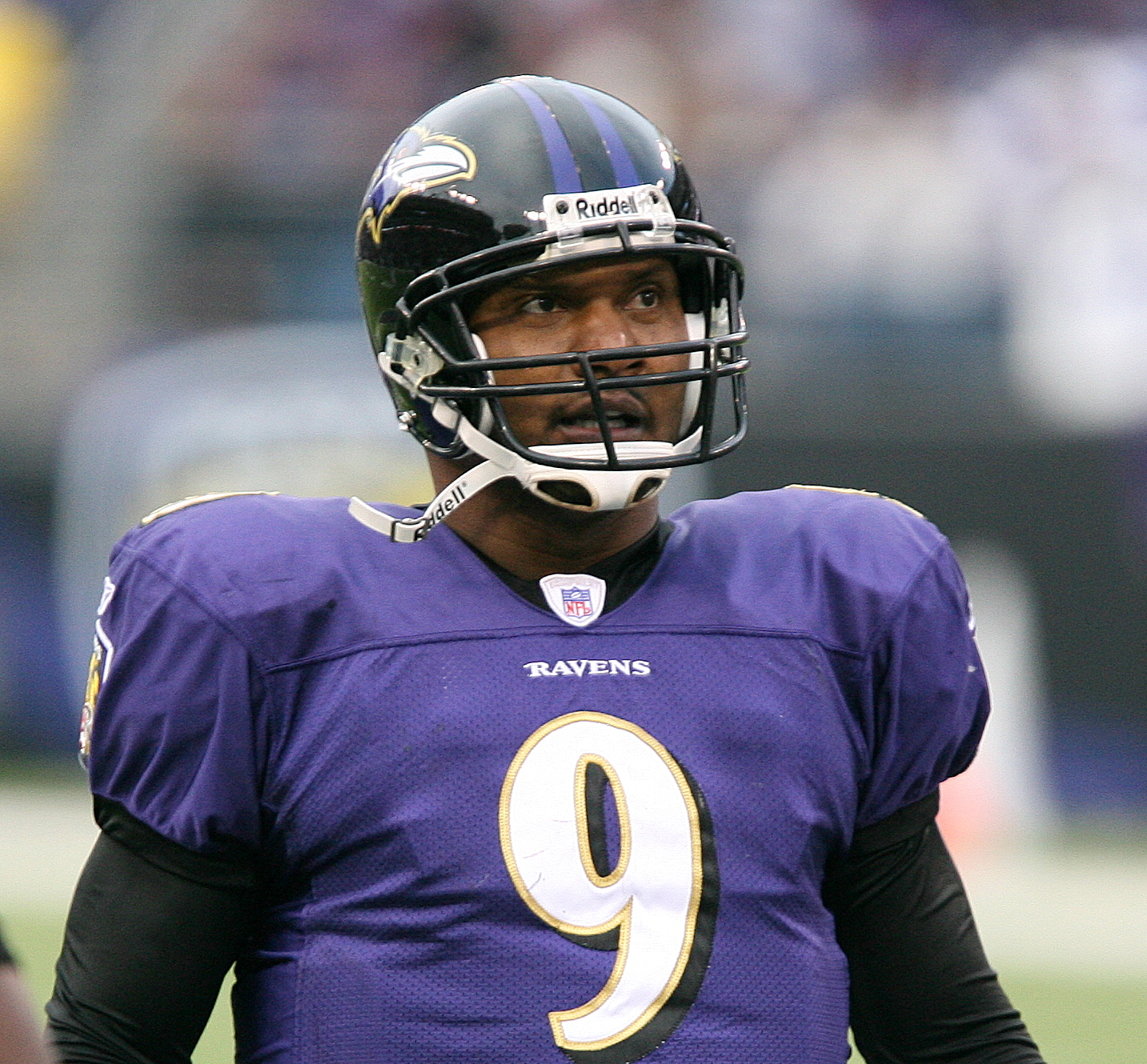 Steve McNair in 2006